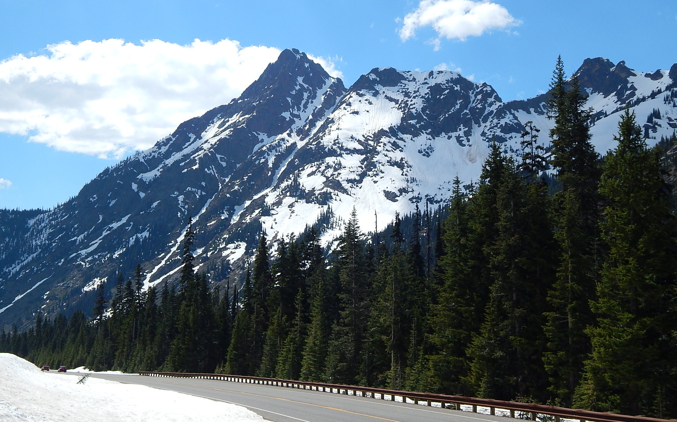 Whistler Mountain 7790' seen from the North Cascades Highway